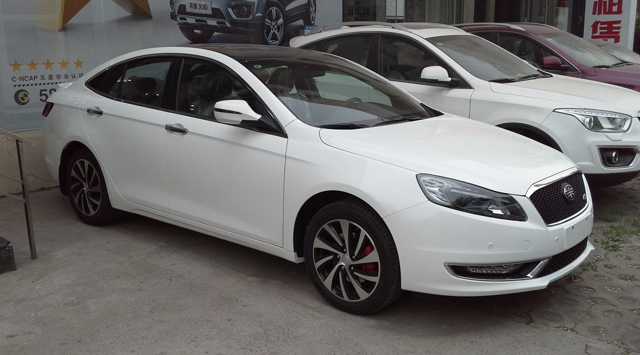 Besturn B70 II RS photographed in Beijing, China.